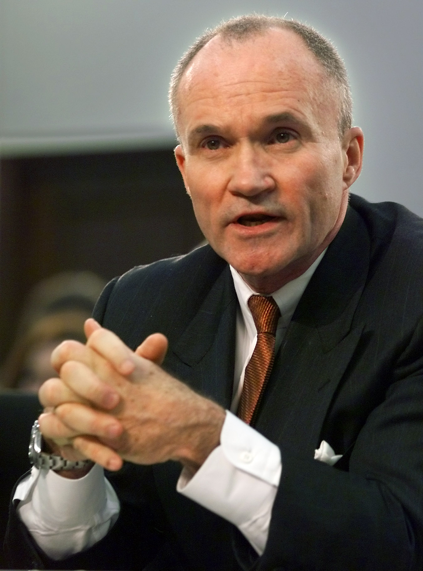 U.S. Customs Commissioner Raymond Kelly discusses FY2001 budget issues with House Appropriations Committee.